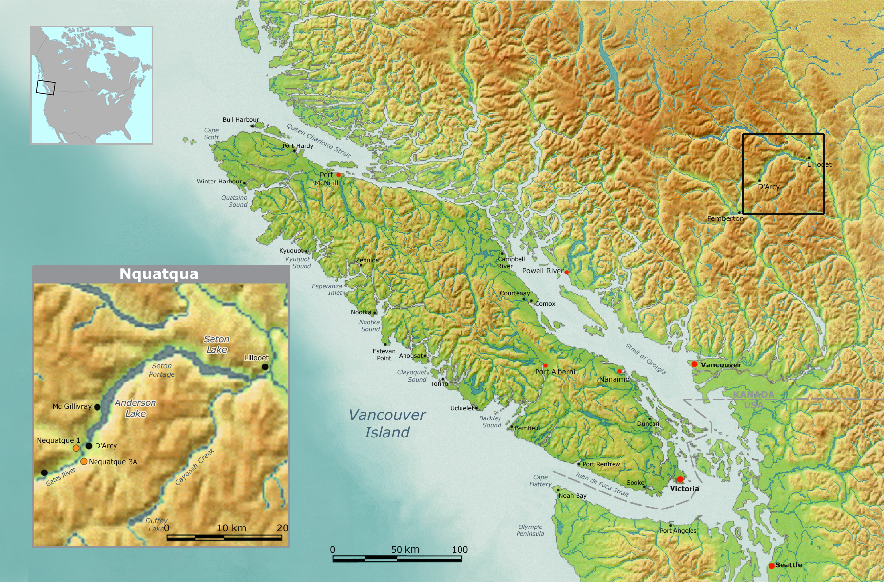 Map of Nquatqua tribal territory.